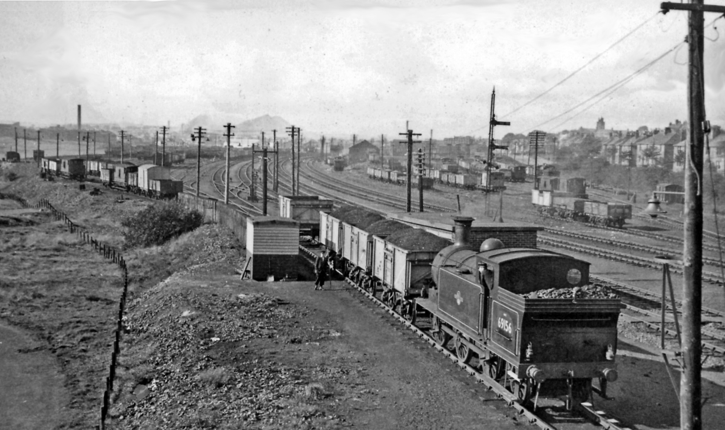 Shunting operations in the marshalling yard at Bathgate. View NW, towards Bathgate (Upper), Airdrie and Glasgow; ex-North British Edinburgh - Bathgate - Glasgow line (closed to passengers 1956, reopened throughout in 2010). The locomotive shunting is ex-NB N15 0-6-2T No. 69156, with plenty of traffic in the Yard.